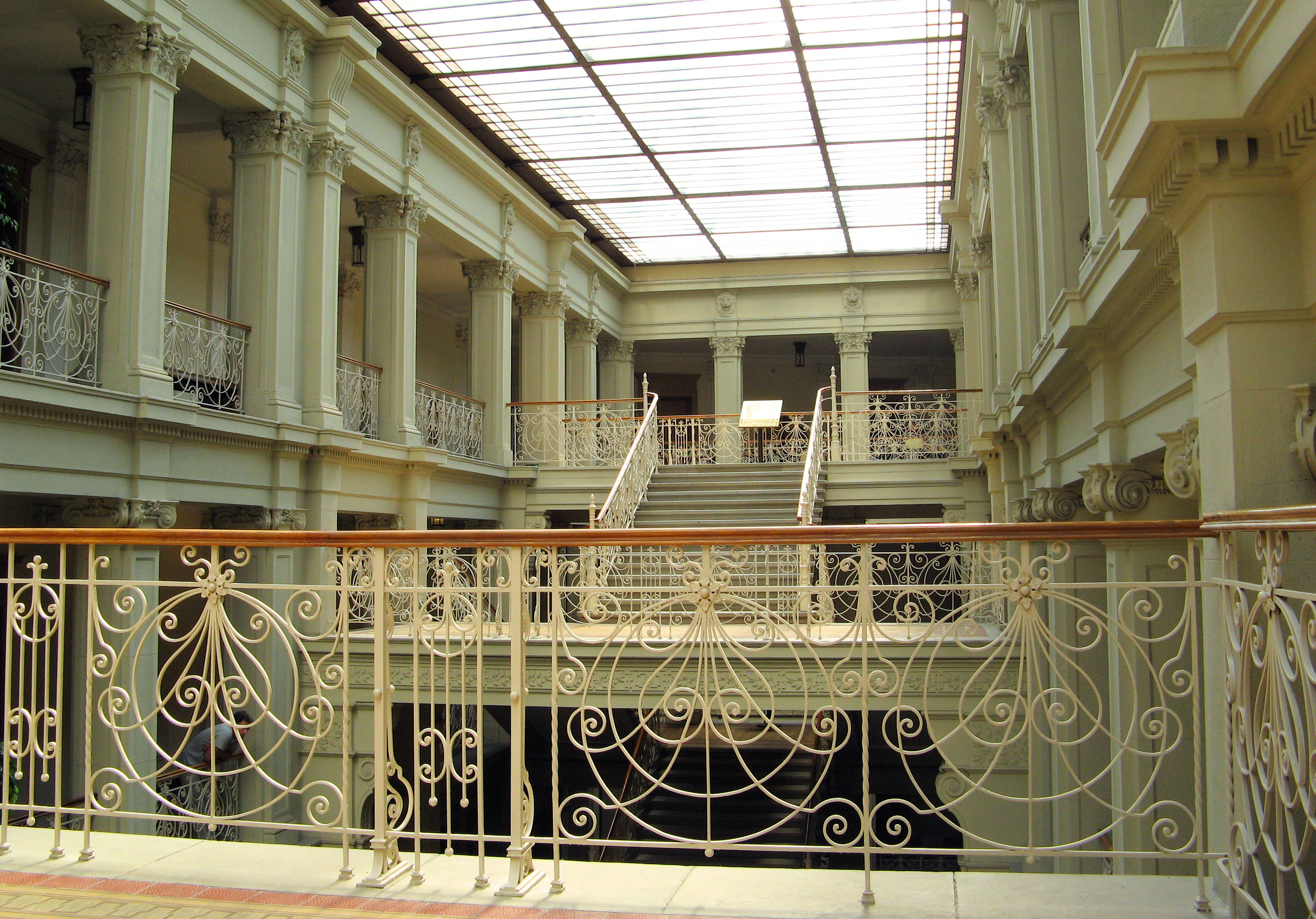 New regional palace, Zerotinovo square 3/5, Brno, Czech Republic. Atrium.